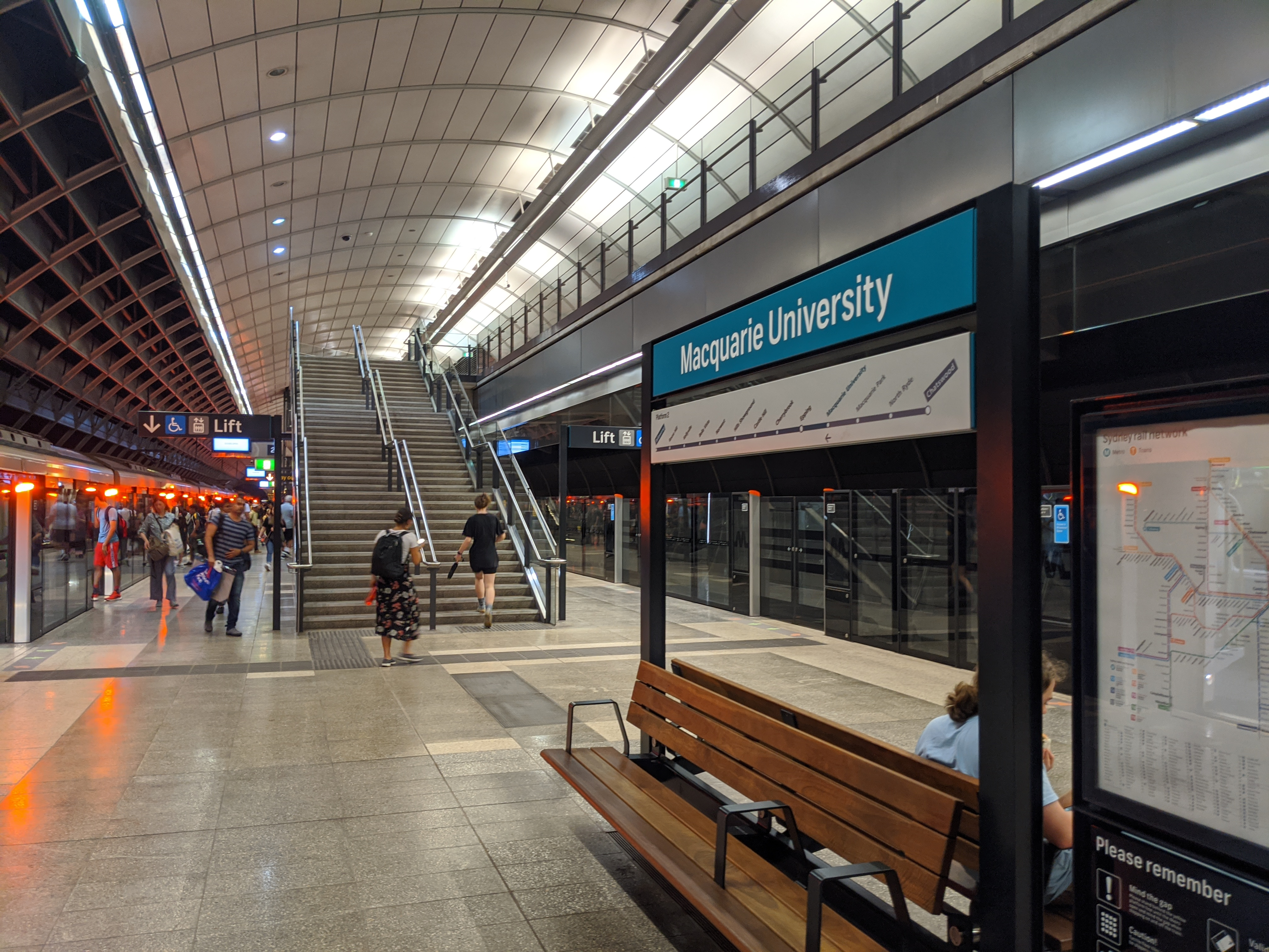 Macquarie University Metro Station